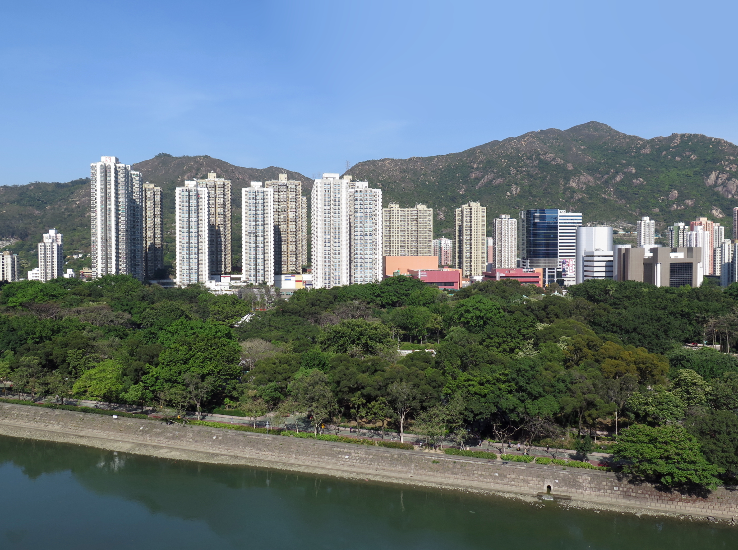 Tuen Mun Town Centre Buildings